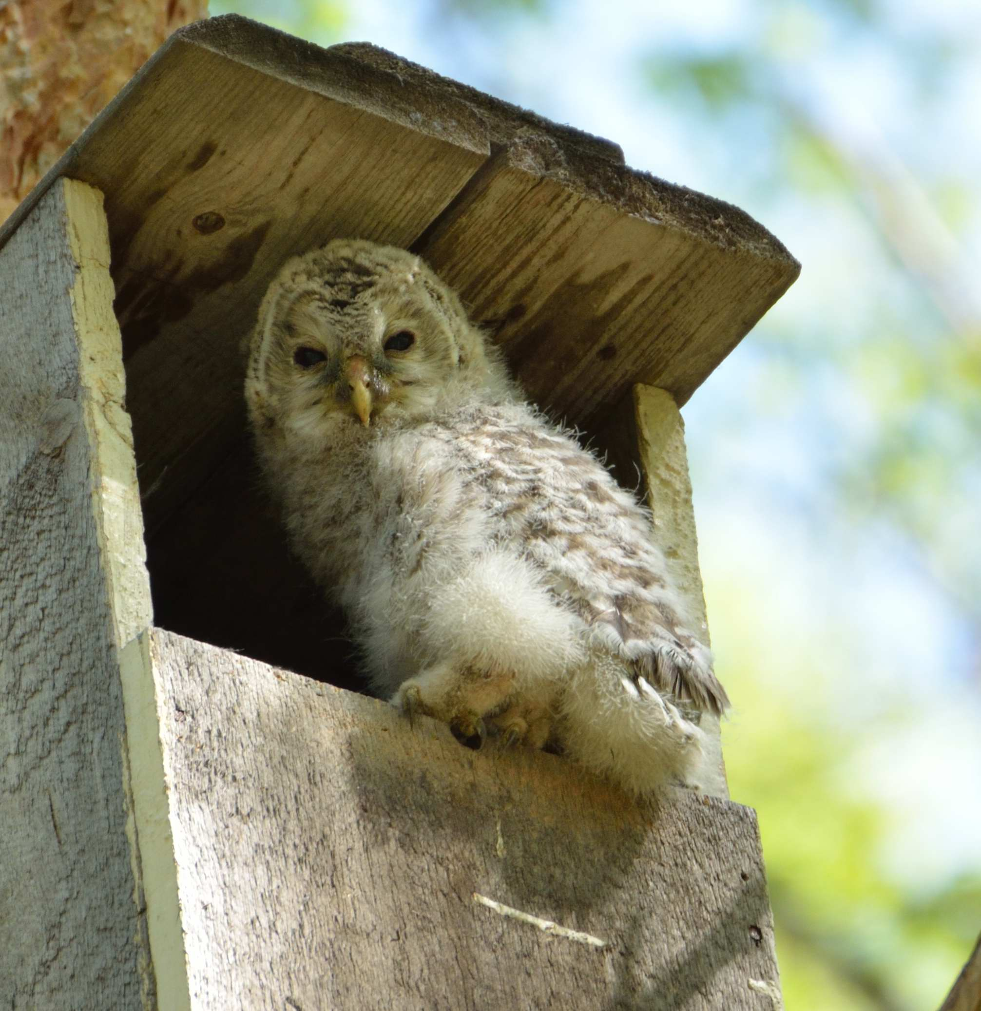 Ural Owl chick in nestbox, near Novosibirsk.